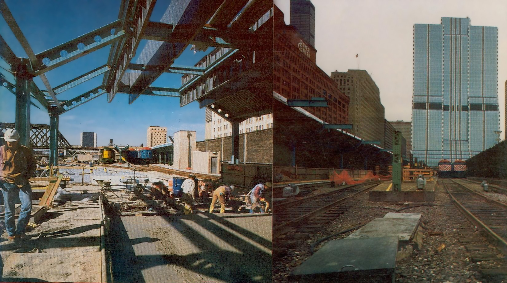 Images of the rehabilitation work in progress